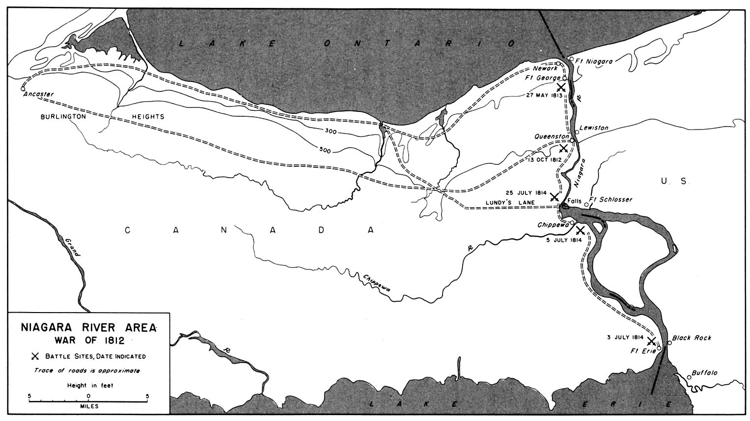 Map of the Lake Ontario - Niagara River region, showing points of interest during the War of 1812